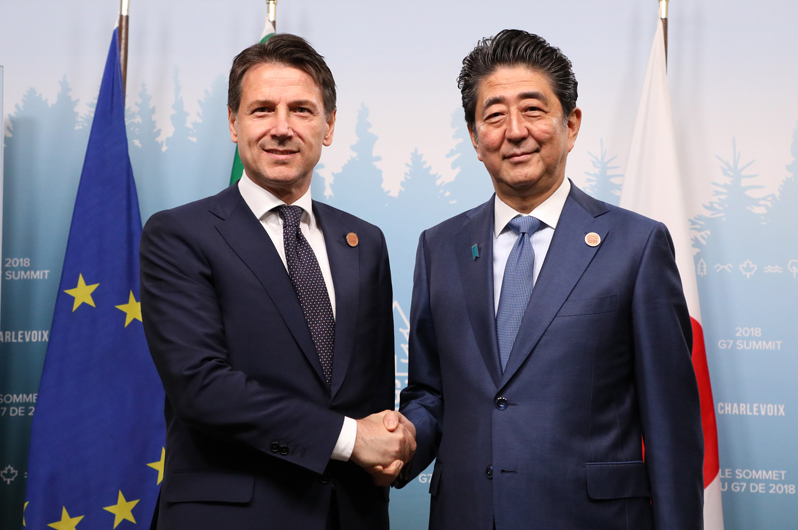 Prime Minister of Japan Shinzō Abe and Prime Minister of Italy Giuseppe Conte at the 44th G7 summit.